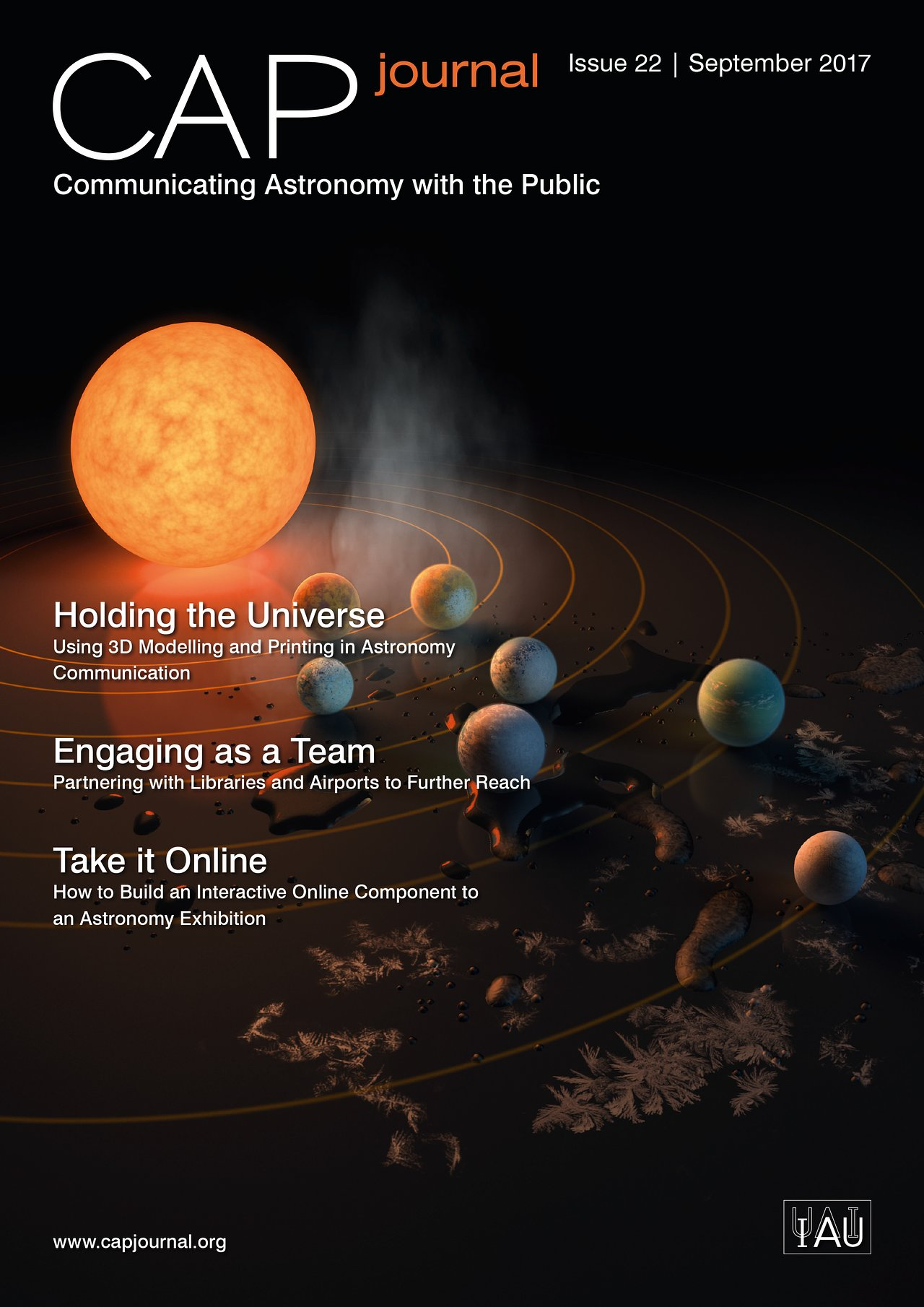 Cover picture of CAP Journal issue 22. Credit: ESO